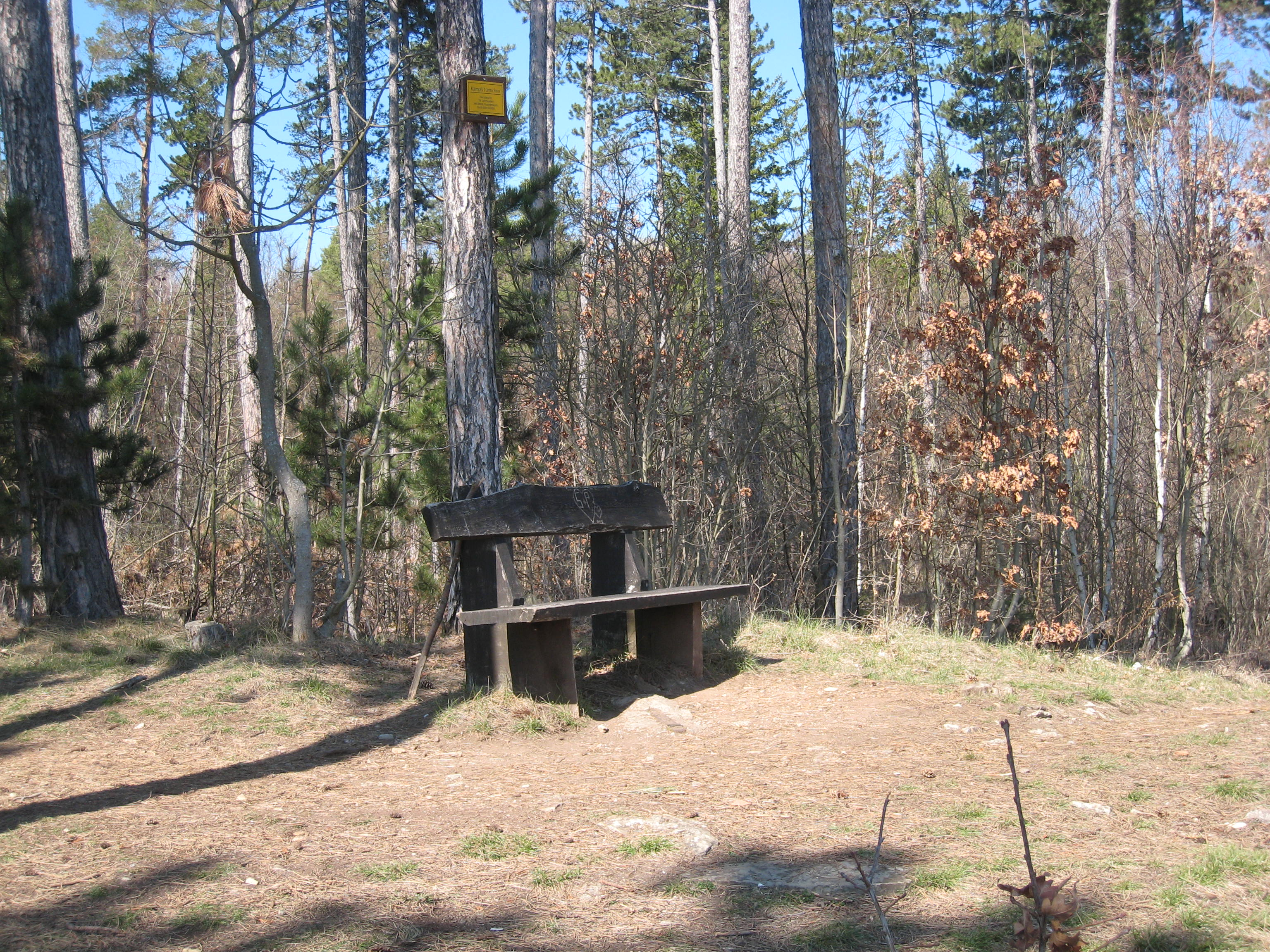 Kämpfs Türmchen